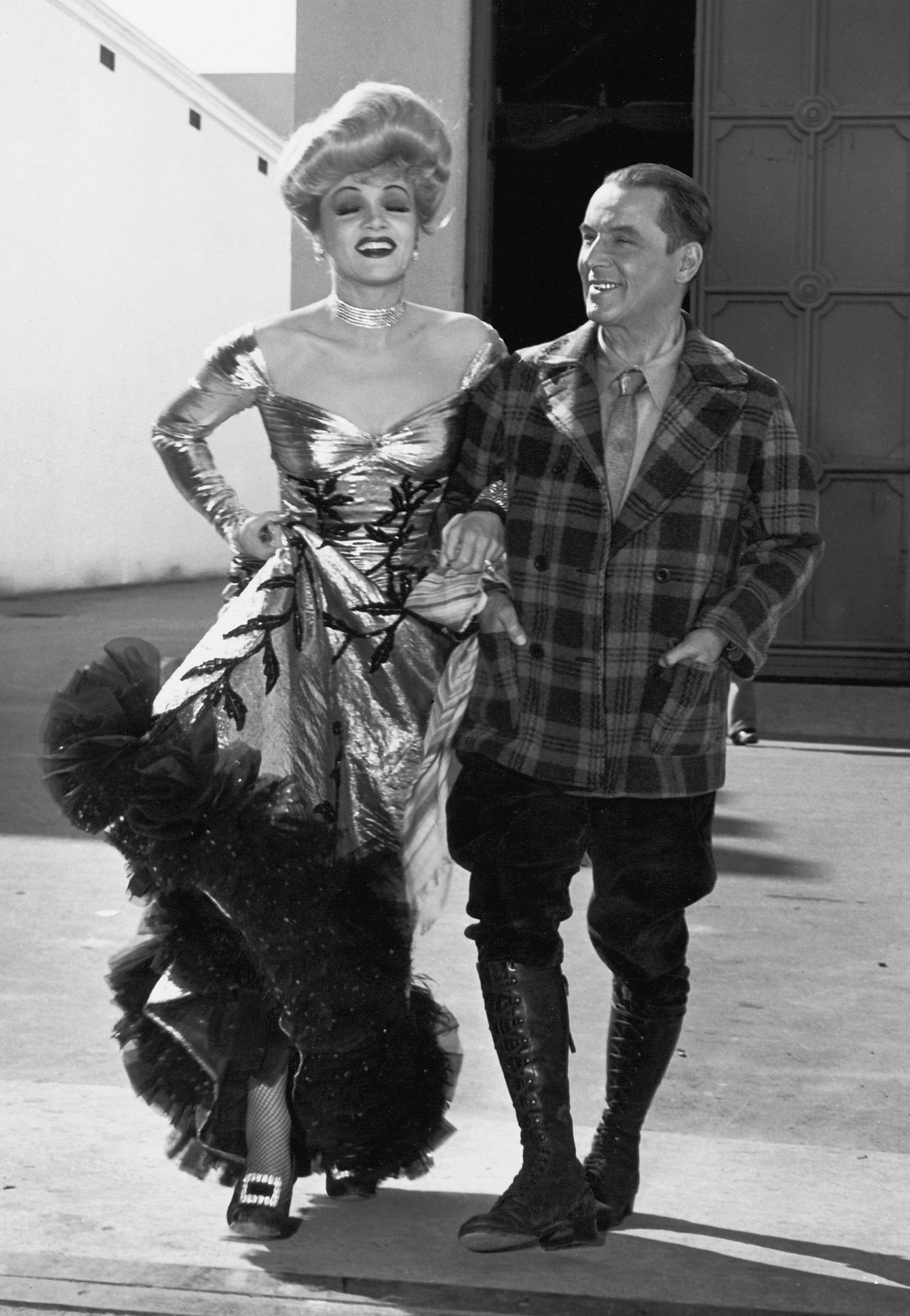 Robert Service during the setting of the "Spoiler" film (The Spoilers (1942) with Marlene Dietrich.